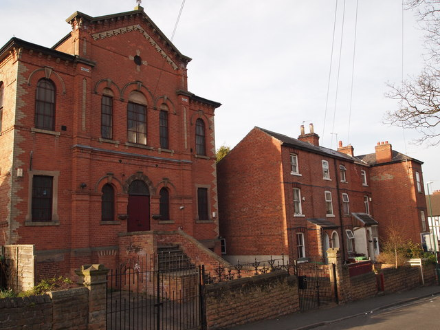 Nottingham - Basford NG6